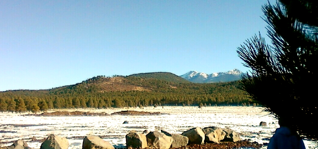 A snow-covered field in Bellemont Flat, Bellemont, Arizona, view from behind the Motel 6 Bellemont, looking northeast. The San Francisco Peaks are visible in the background behind the foothills.This photograph was taken with a Samsung Reclaim SPH-m560 mobile phone camera and edited (color balance, saturation, brightness, contrast, sharpness) using ArcSoft PhotoStudio 5.5